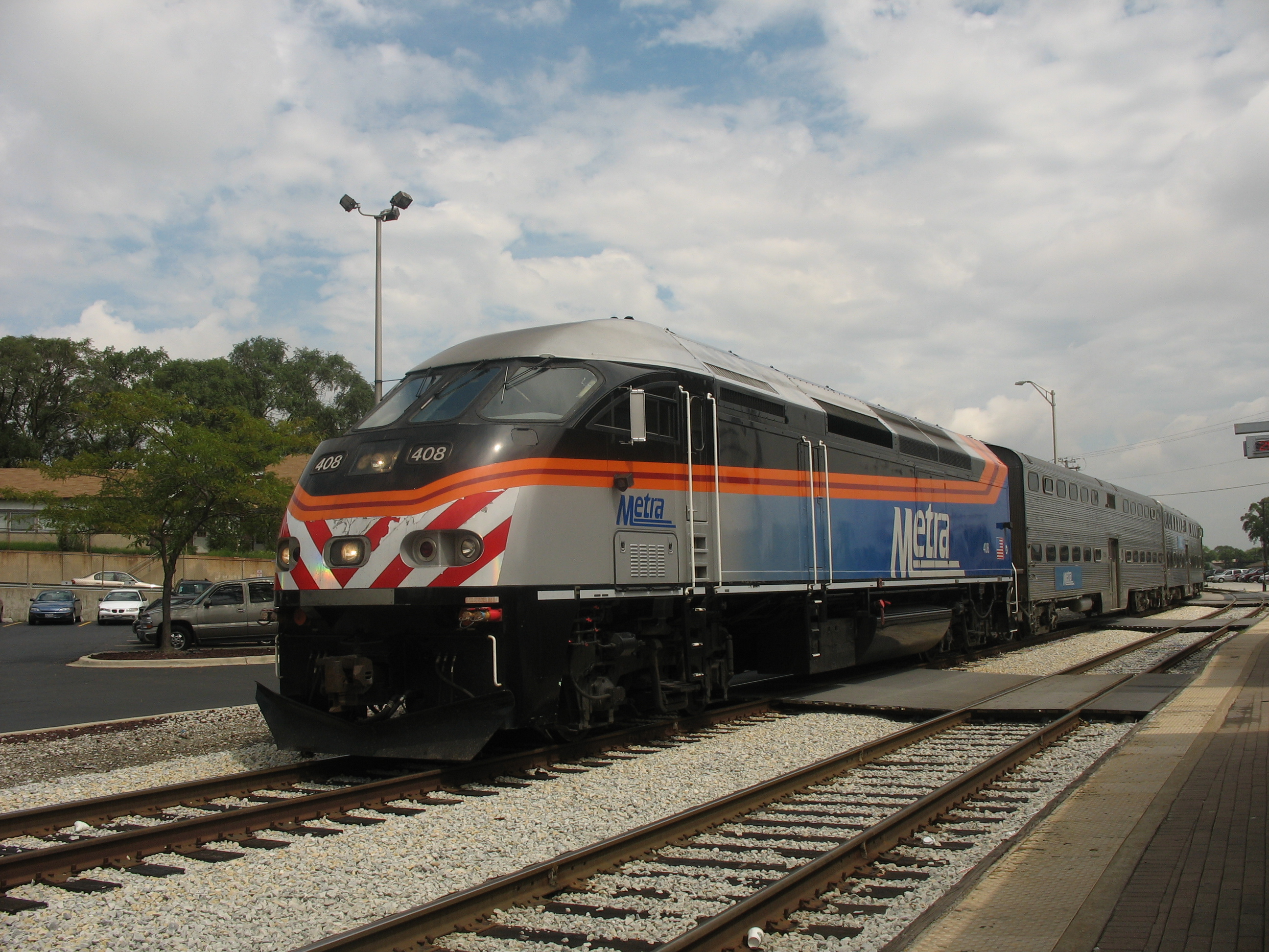 Metra locomotive pulls into Blue Island, IL